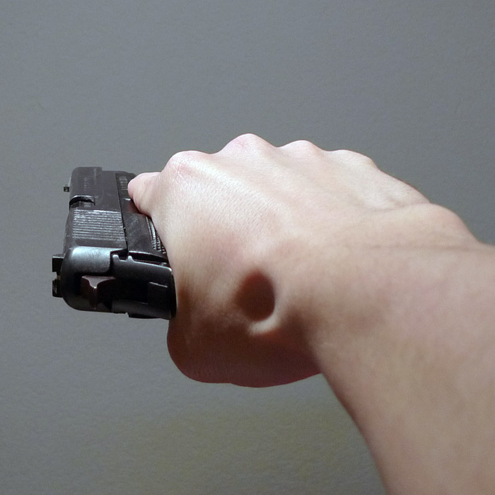 A SIG-Sauer P220 pistol held sideways, to illustrate the side grip made popular by gangster movies.